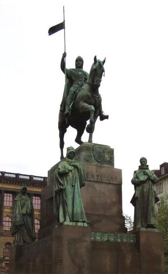 Statue of St. Wenceslaus at Wencleslaus square in Prague. Sculpted by Josef Václav Myslbek.